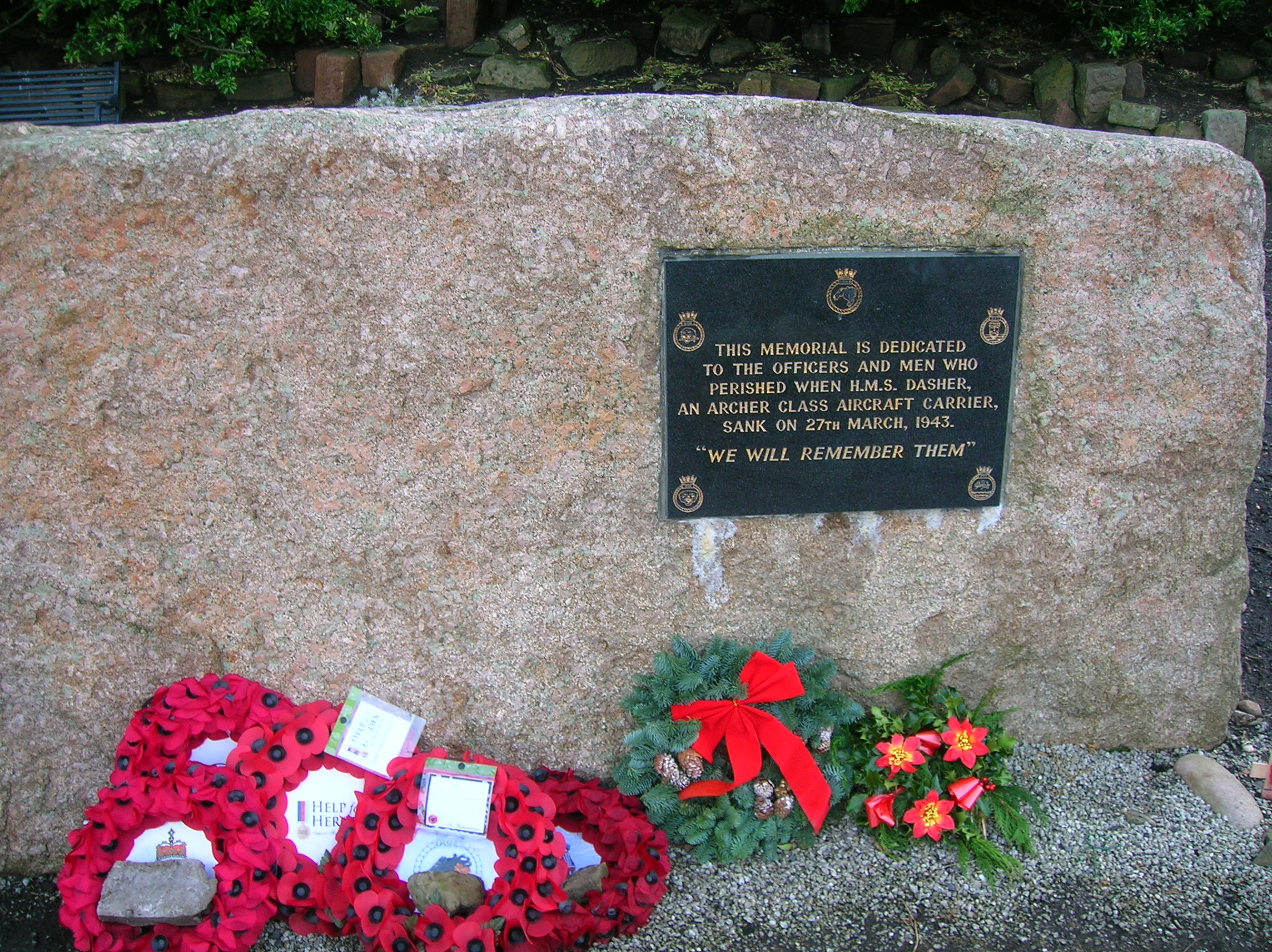 The memorial placque and memorial stone to the victims of the HMS Dasher disaster, North Ayrshire, Scotland. An error is that the ship was an Avenger Class